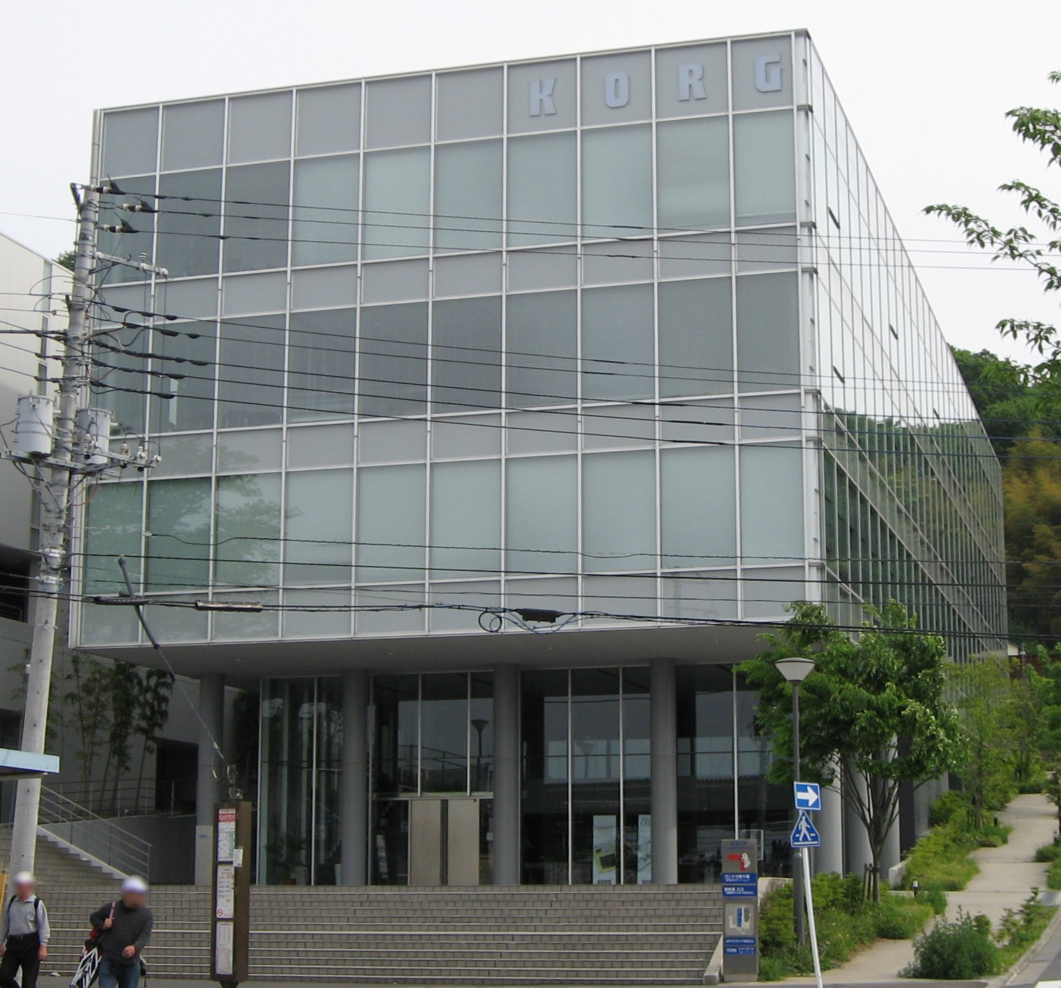 Headquarters of Korg Inc in Inagi, Tokyo, Japan.